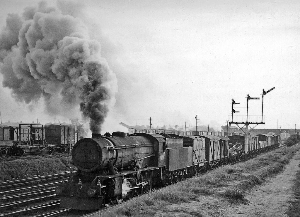 Eastbound freight on North Mersey line passing site of Ford Station and Aintree Sorting Sidings. View westwards near Sefton Junction, towards North Mersey Goods, Gladstone Dock and Liverpool Exchange via Linacre Road; ex-Lancashire & Yorkshire line. Ford station (closed 2/4/51) was this side of the A5038 bridge in the distance; Aintree SS are across on the south side of the line. The locomotive on the Class F freight is ex-War Department 2-8-0 No. 90557: note that it is fitted with a snow-plough - in mid-June. [Thanks to Phil Prosser for his corrections]